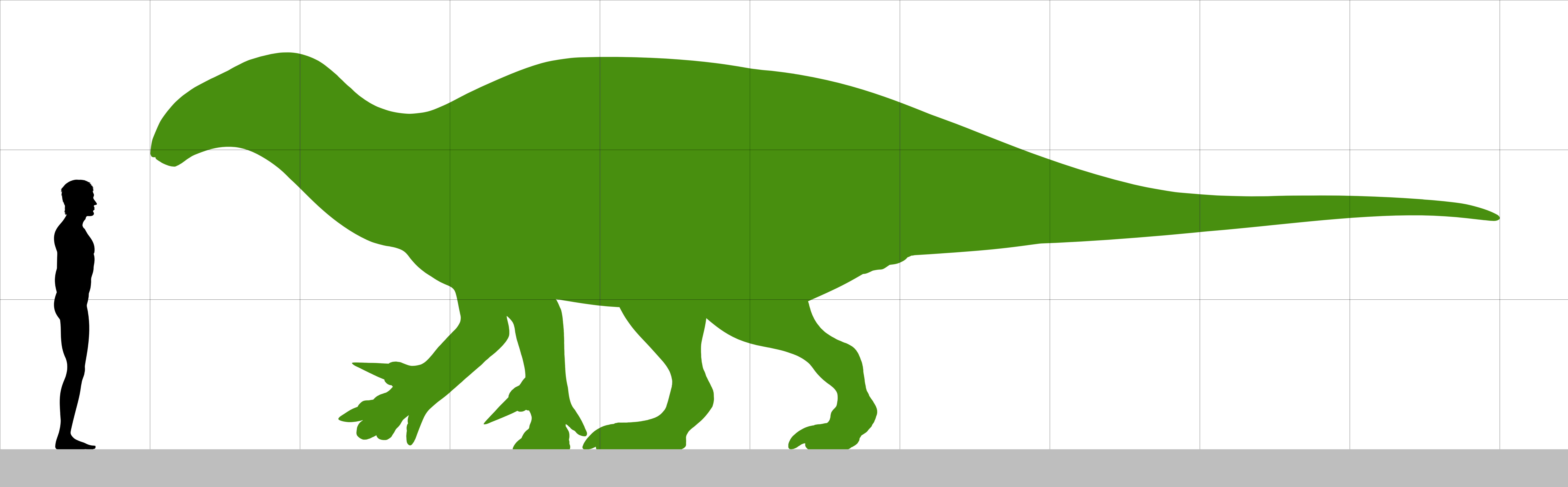 Size comparison beetwen Iguanacolossus and 1.8 m tall man. Iguanacolossus is a large iguanodontid, estimated to have reach around 9 m, or similar to Iguanodon.[1]